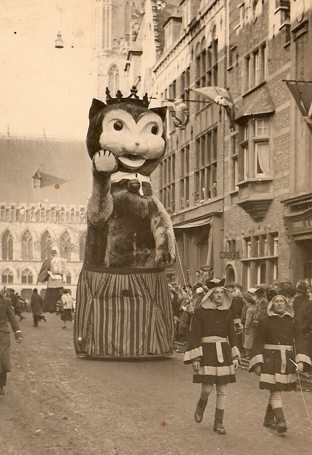 This is a picture from my grandfather. This picture show the Kattenstoer in ypres, between 1950-1960. My father (6 mars 1919 - 13 juin 1994) is Michel Deltombe (Right on the picture).